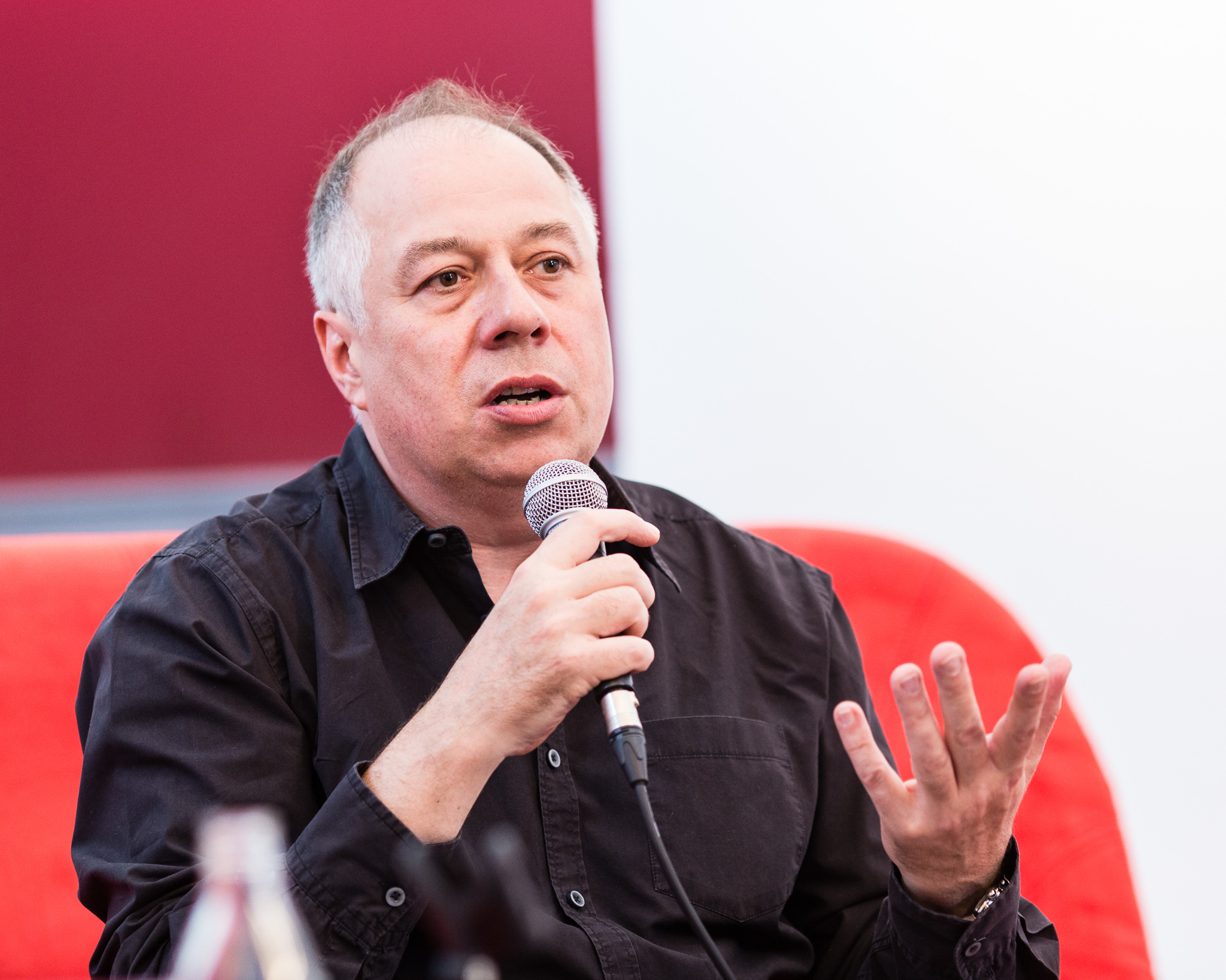 Krzysztof Varga on Authors’ Reading Month 2018, Wrocław, Poland